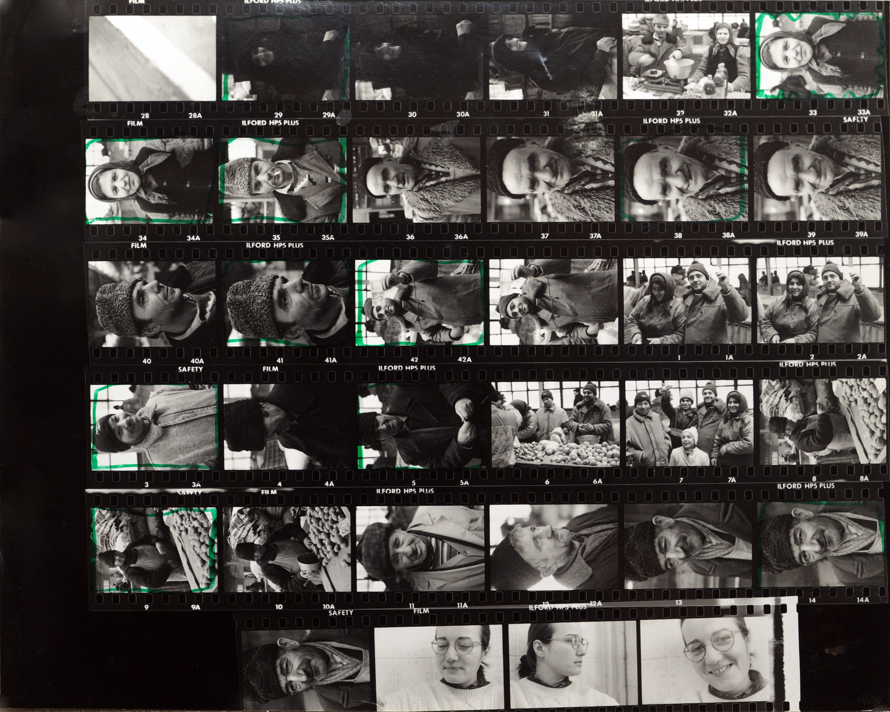 Example of a black & white contact sheet print.